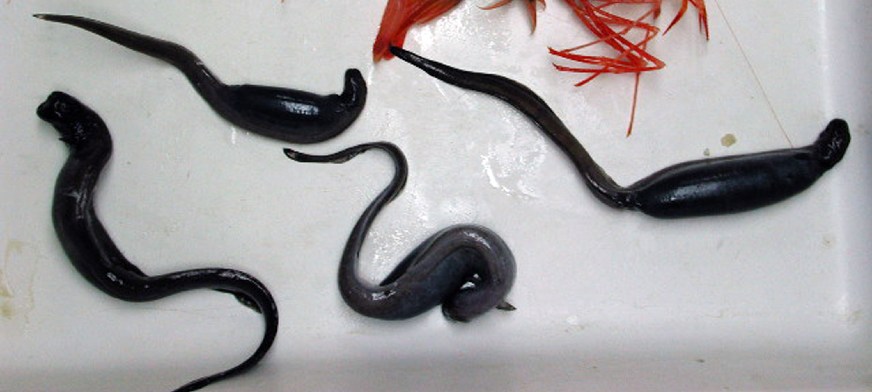 Snubnosed eels (Simenchelys parasitica) caught from a scavenger trap at a depth of 650-950 meters off Hawaii.